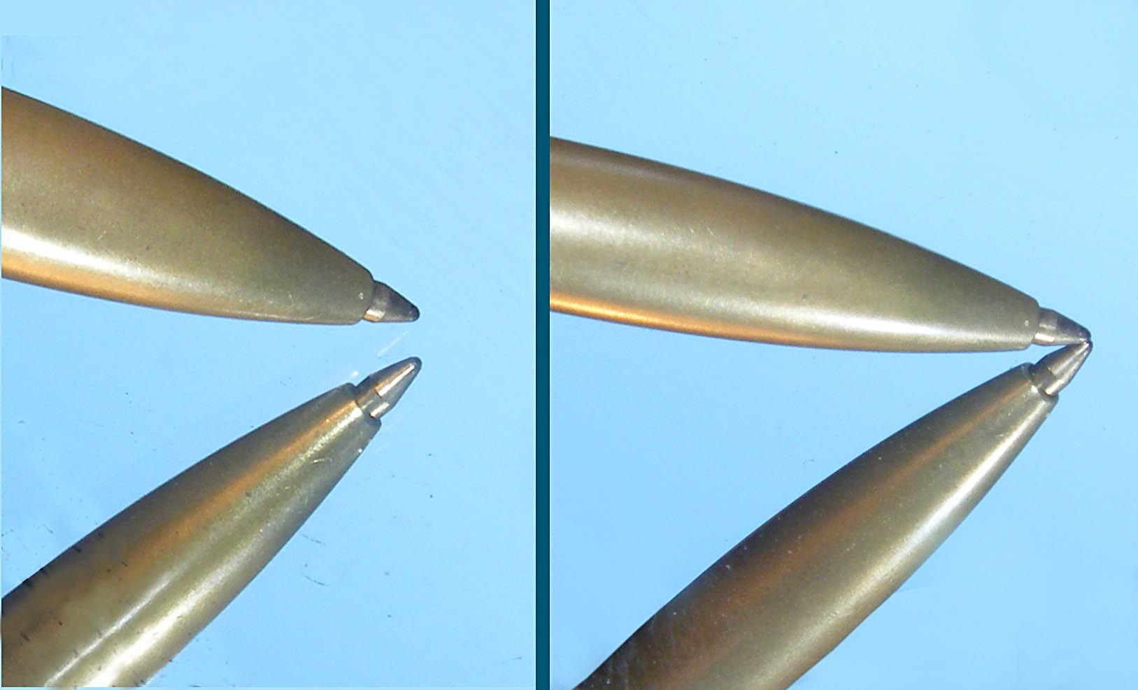 Difference between normal mirror (left) and one for optical uses